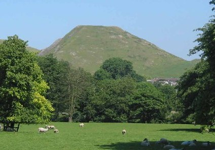 Photo taken by Dennis Thorley, 27th June, 2005, and sourced from